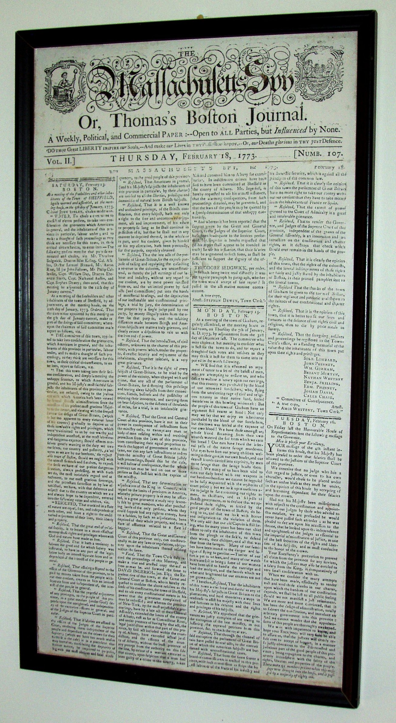 The Massachusetts Spy, or Thomas's Boston Journal, vol. II, no. 107, February 18, 1773, containing the Sheffield Declaration as lead article.